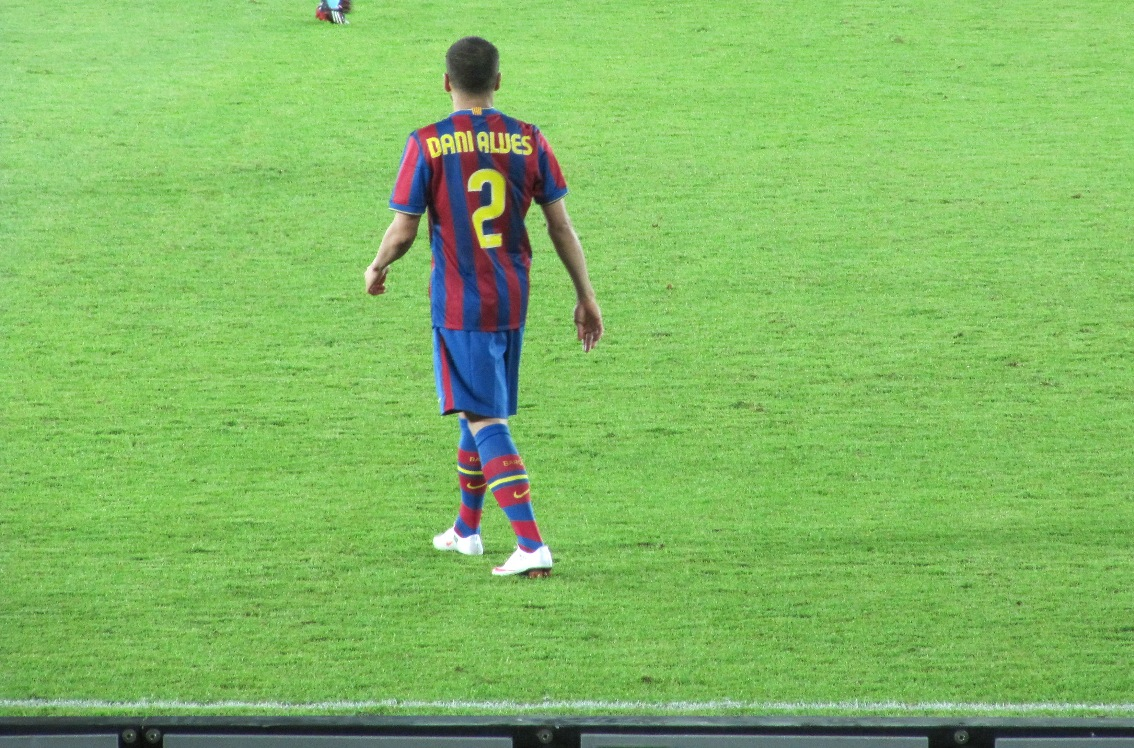 Daniel Alves during semifinal match of 2009 FIFA Club World Cup in Abu Dhabi.